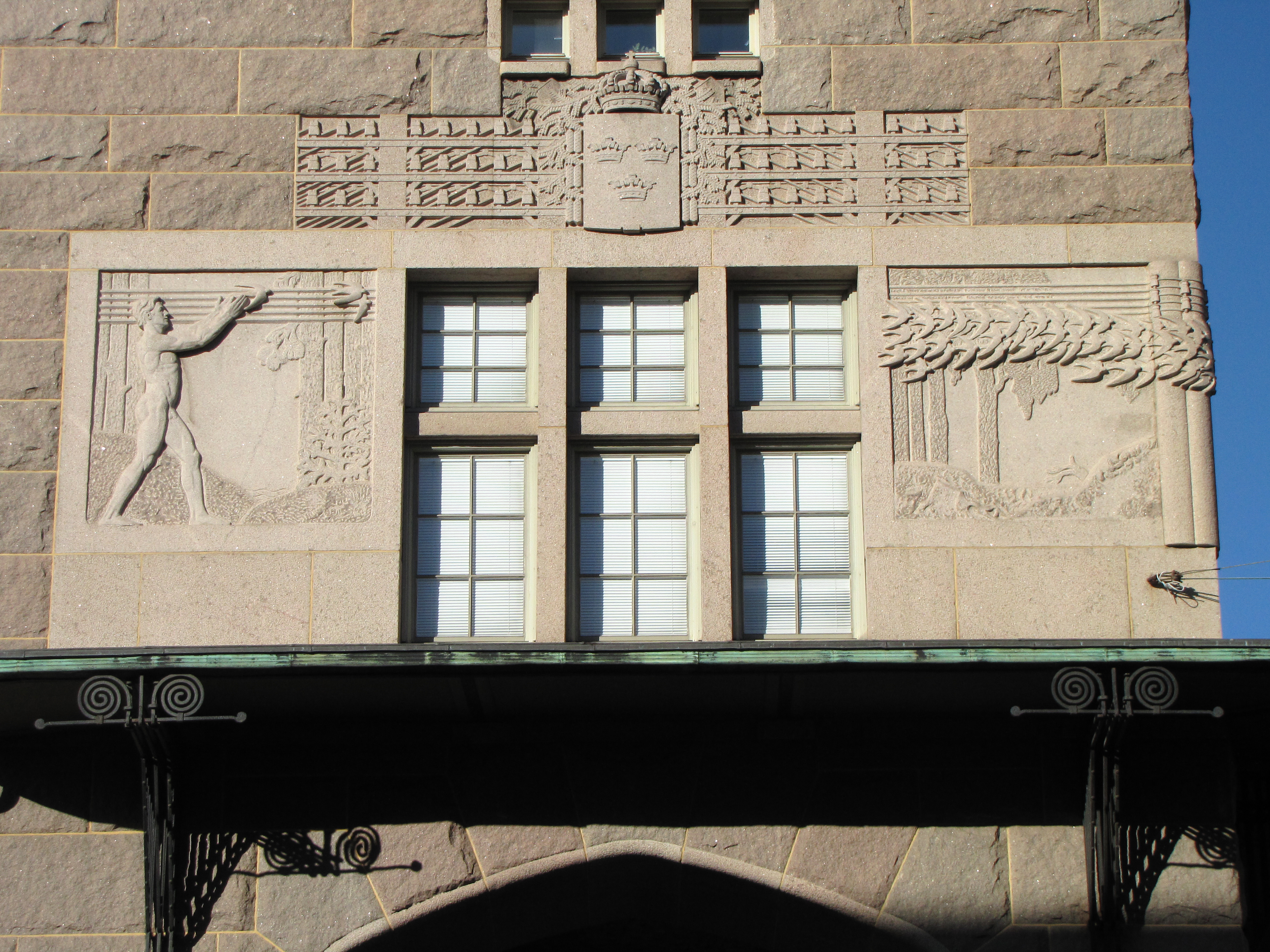 Relief on the east façade of "televerket", the old telegraph house in Göteborg.